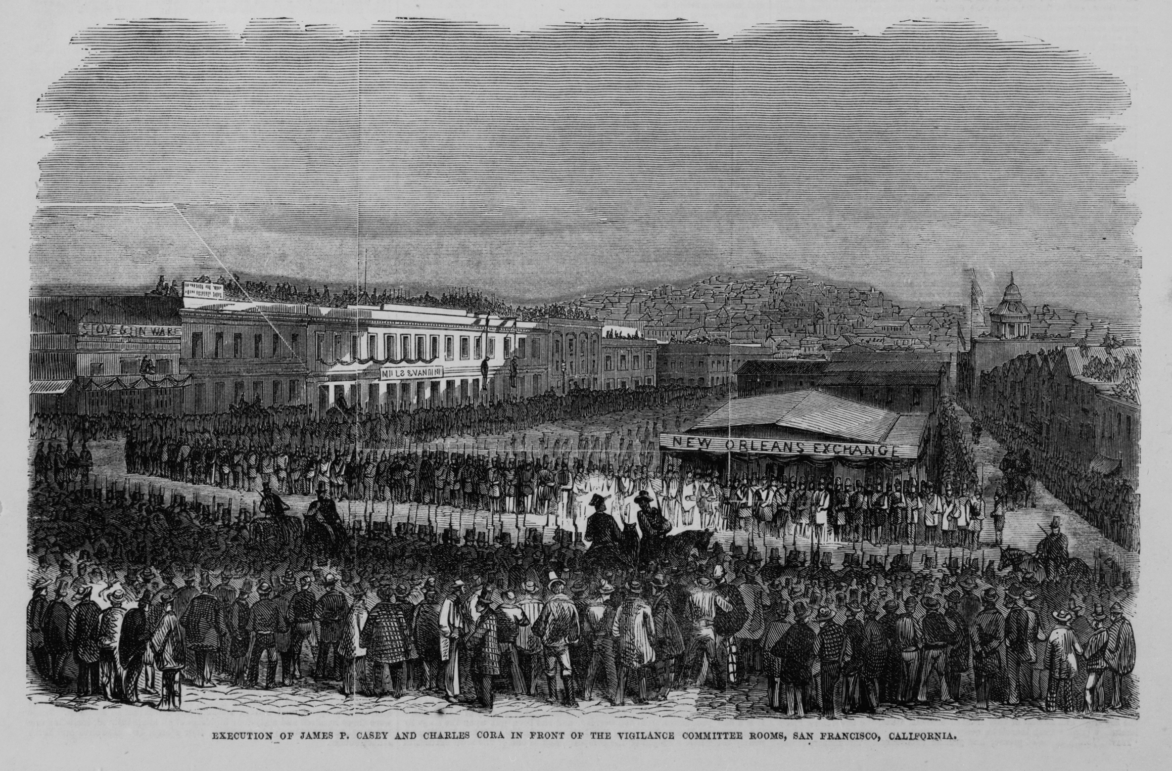 Hanging of James P. Casey and Charles Cora in front of the vigilance committee rooms, San Francisco, California. See San Francisco Vigilance Movement.